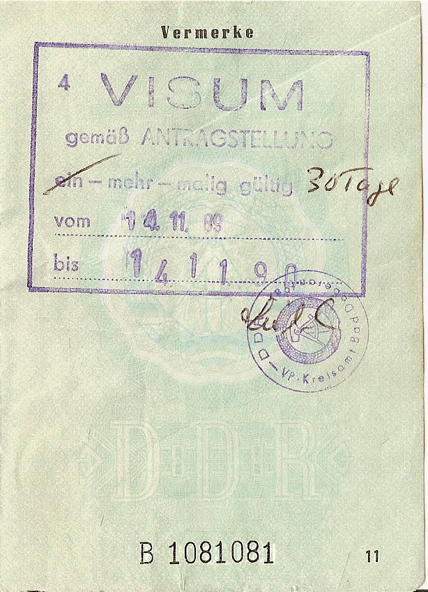 Identity document, Visa GDR, November 1989,Fall of the inner German border